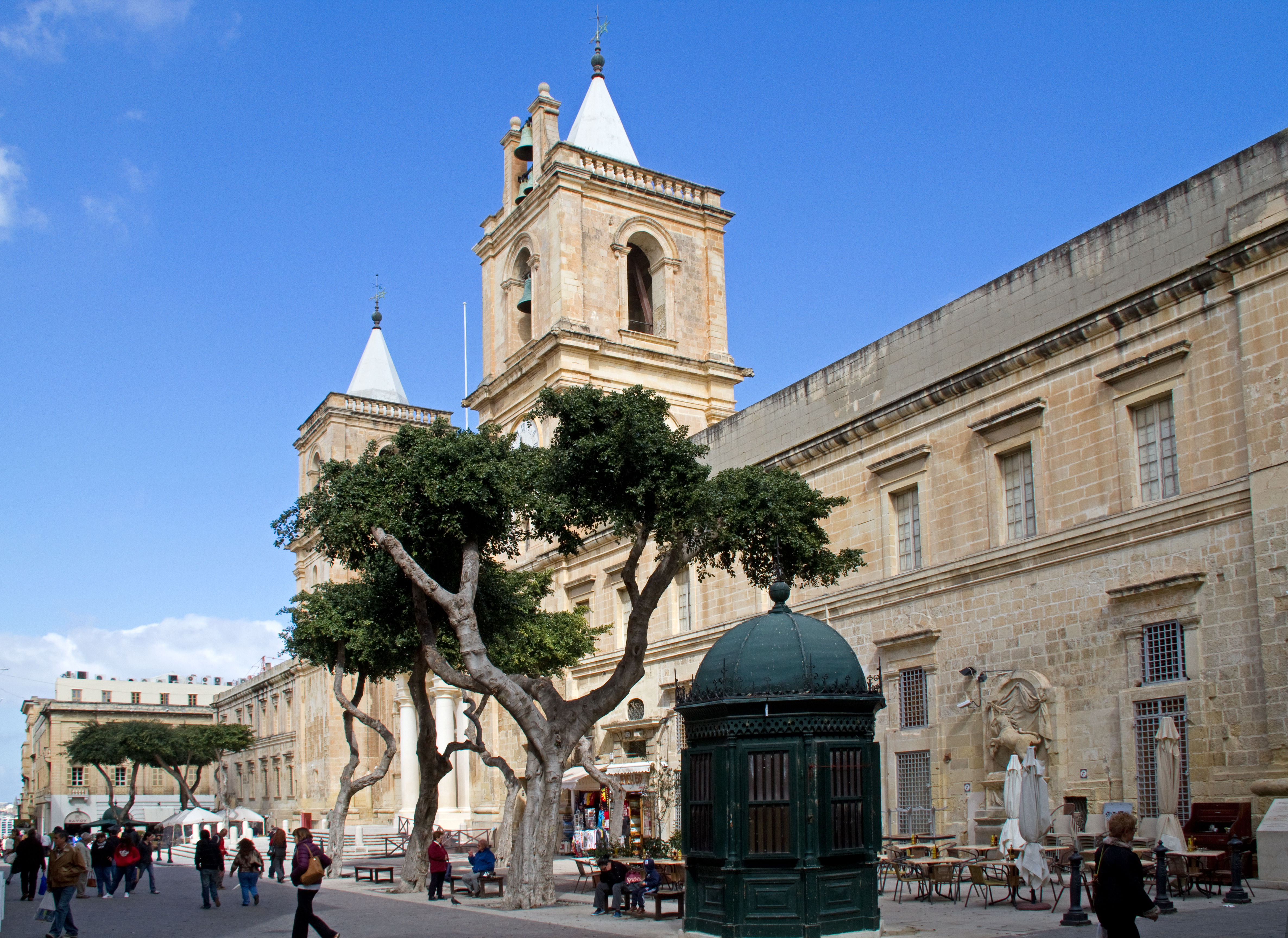 St John's Co-Cathedral Valetta 1